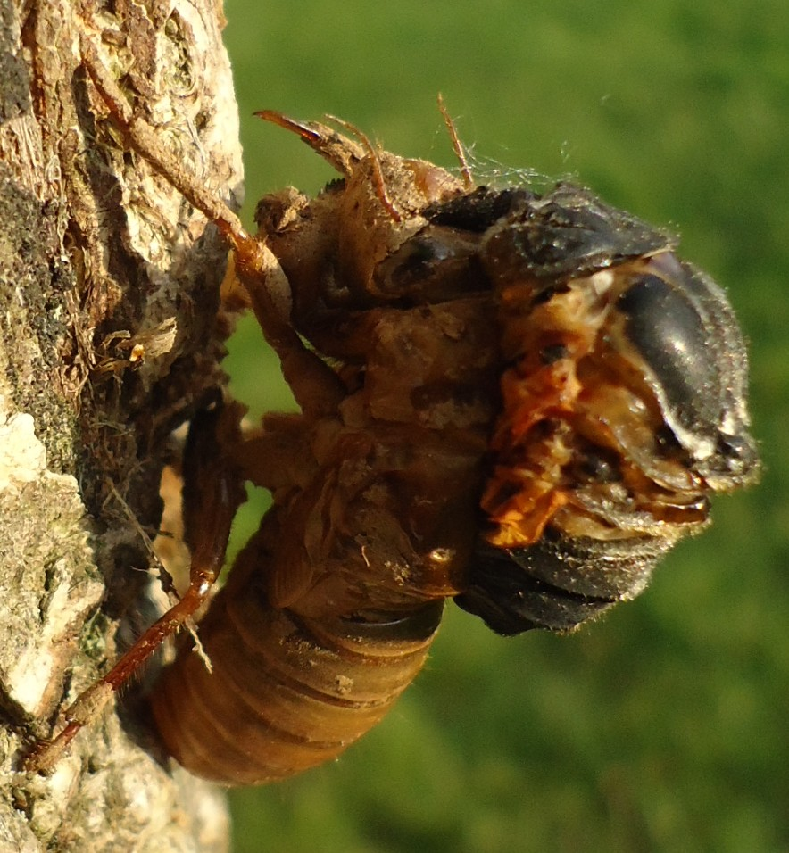 A cicada climbs out of its exoskeleton which remains attached to the tree.